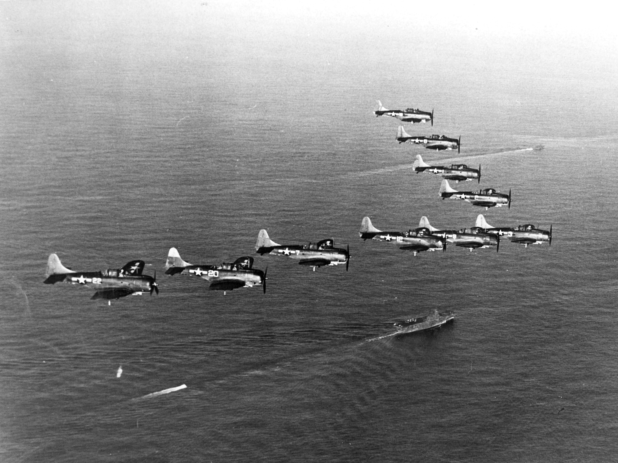 U.S. Navy Douglas SBD-5 Dauntless of Bombing Squadron 10 (VB-10) in formation over the aircraft carrier USS Enterprise (CV-6) on the day of strikes against Palau. The lead aircraft is flown by LCDR James D. Ramage. One of the last two SBD squadrons to operate from U.S. fleet carriers during World War II, VB-10 flew from the deck of the Big E during the period January-July 1944, and participated in the Battle of the Philippine Sea on 19-20 June 1944.